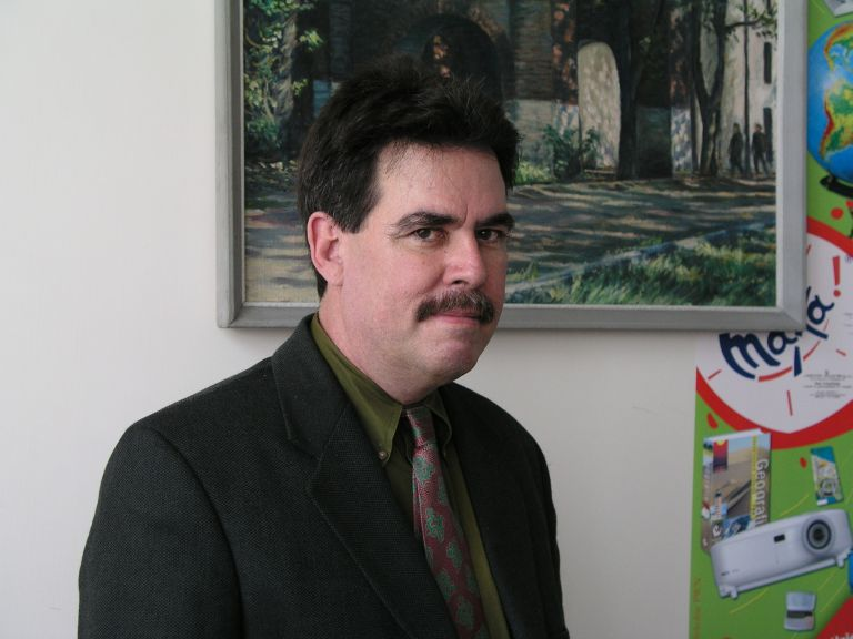 Kevin Hannan, Ph.D. Linguistics